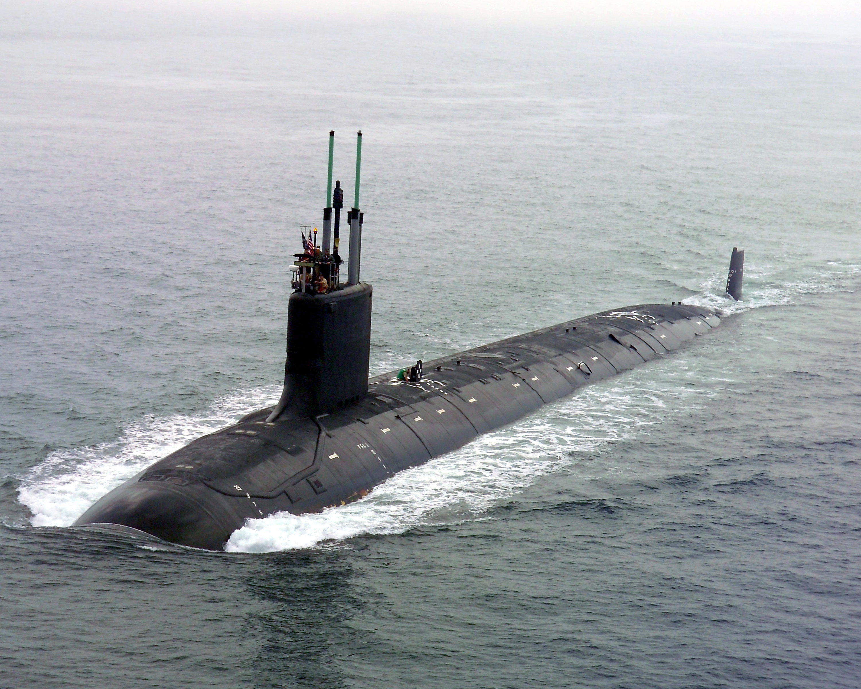 Groton, Conn. (July 30, 2004) - The nation’s newest and most advanced nuclear-powered attack submarine and the lead ship of its class, PCU Virginia (SSN 774) returns to the General Dynamics Electric Boat shipyard following the successful completion of its first voyage in open seas called "alpha" sea trials. Virginia is the Navy’s only major combatant ready to join the fleet that was designed with the post-Cold War security environment in mind and embodies the war fighting and operational capabilities required to dominate the littorals while maintaining undersea dominance in the open ocean. Virginia and the rest of the ships of its class are designed specifically to incorporate emergent technologies that will provide new capabilities to meet new threats. Virginia will be delivered to the U.S. Navy this fall. U.S. Navy photo by General Dynamics Electric Boat (RELEASED)